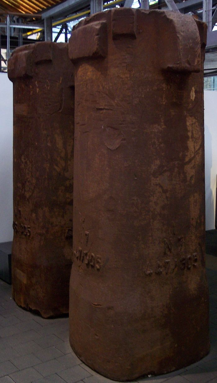 ingot mould